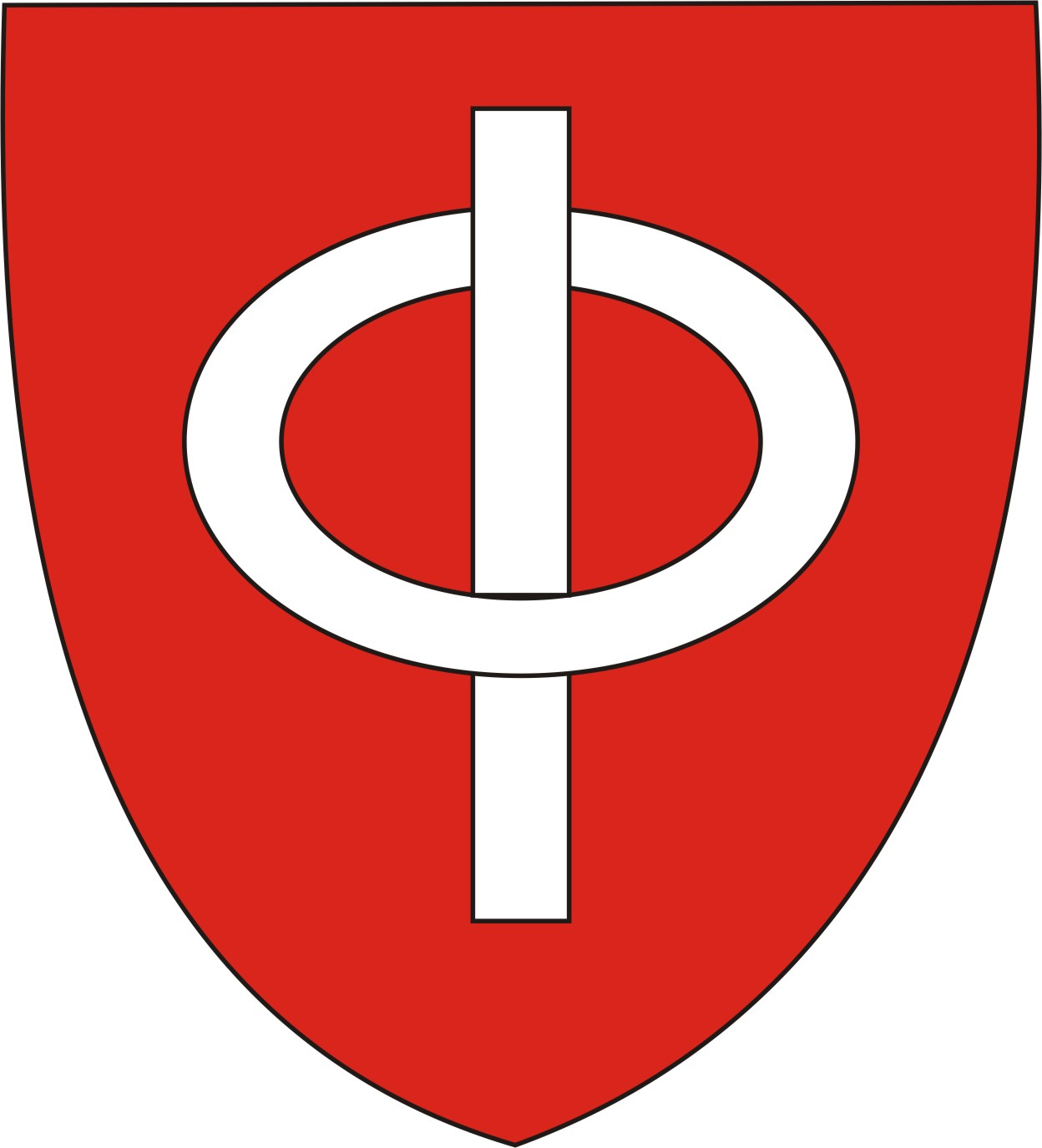 The old coat of arms of Bod, Burzenland, Romania.